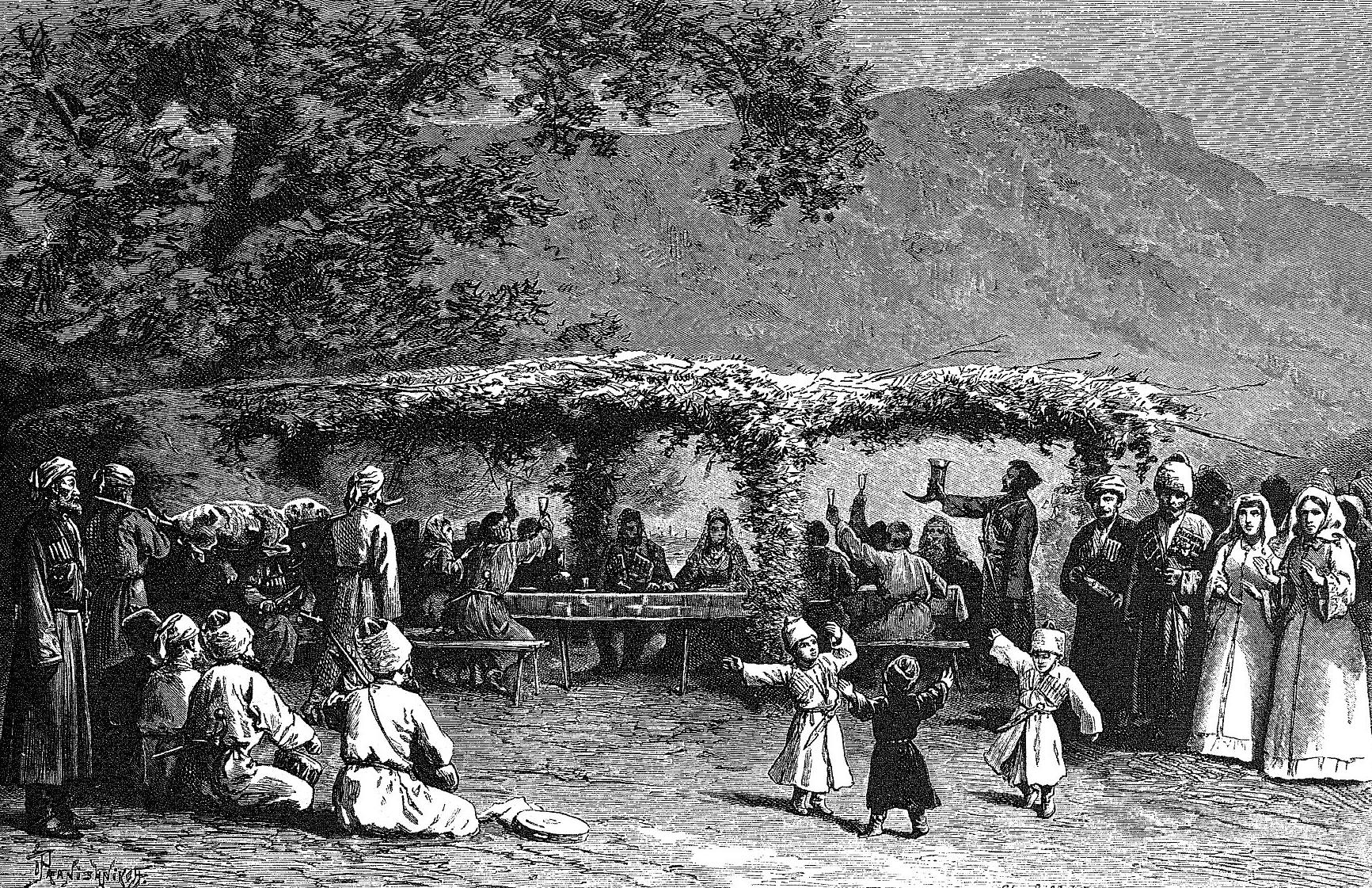 Mingrelian wedding party. Engraved by Y. Pranishnikoff. Published in 1884.